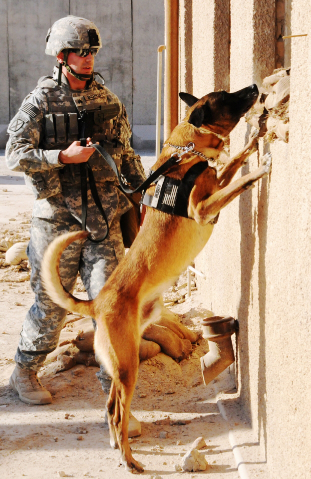 Army Staff Sgt. Buddy, an explosive detection and attack dog, stands tall to sniff a suspicious scent as Army Sgt. Tyler Barriere, military working dog handler, 163rd MP Det., based out of Fort Campbell, Ky., and attached to STB, 2nd BCT, 4th Inf. Div., looks on during a search demonstration at Camp Echo, Jan. 7. Barriere calls Ithaca, N.Y., home and has been with Buddy for more than a year.